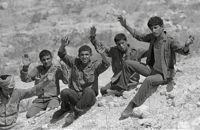 Palestinian fedayeen surrendering to Israel after being expelled from Jordan, 21 July 1971